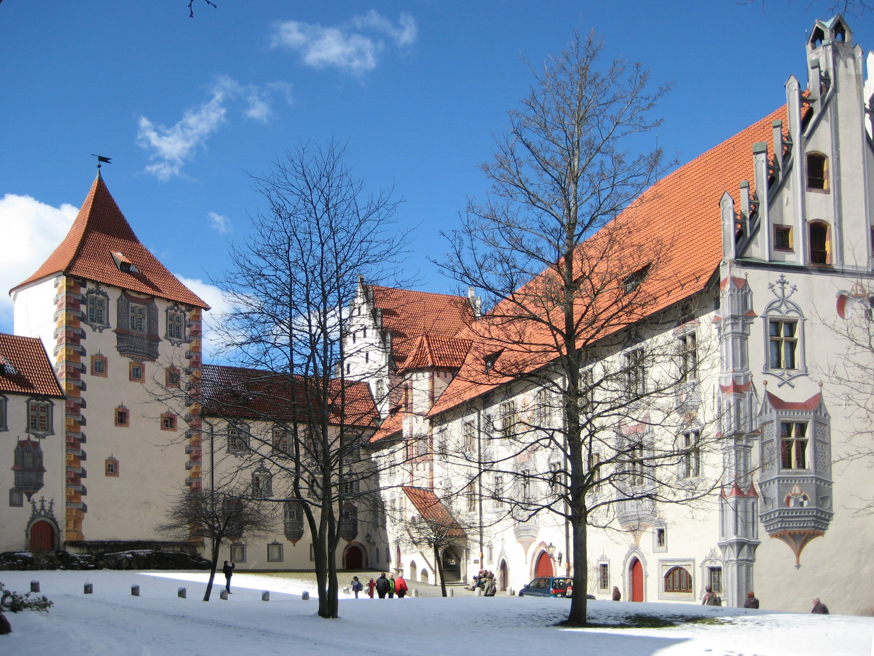 “Hohes Schloss” (High Castle) in Füssen, inner courtyard